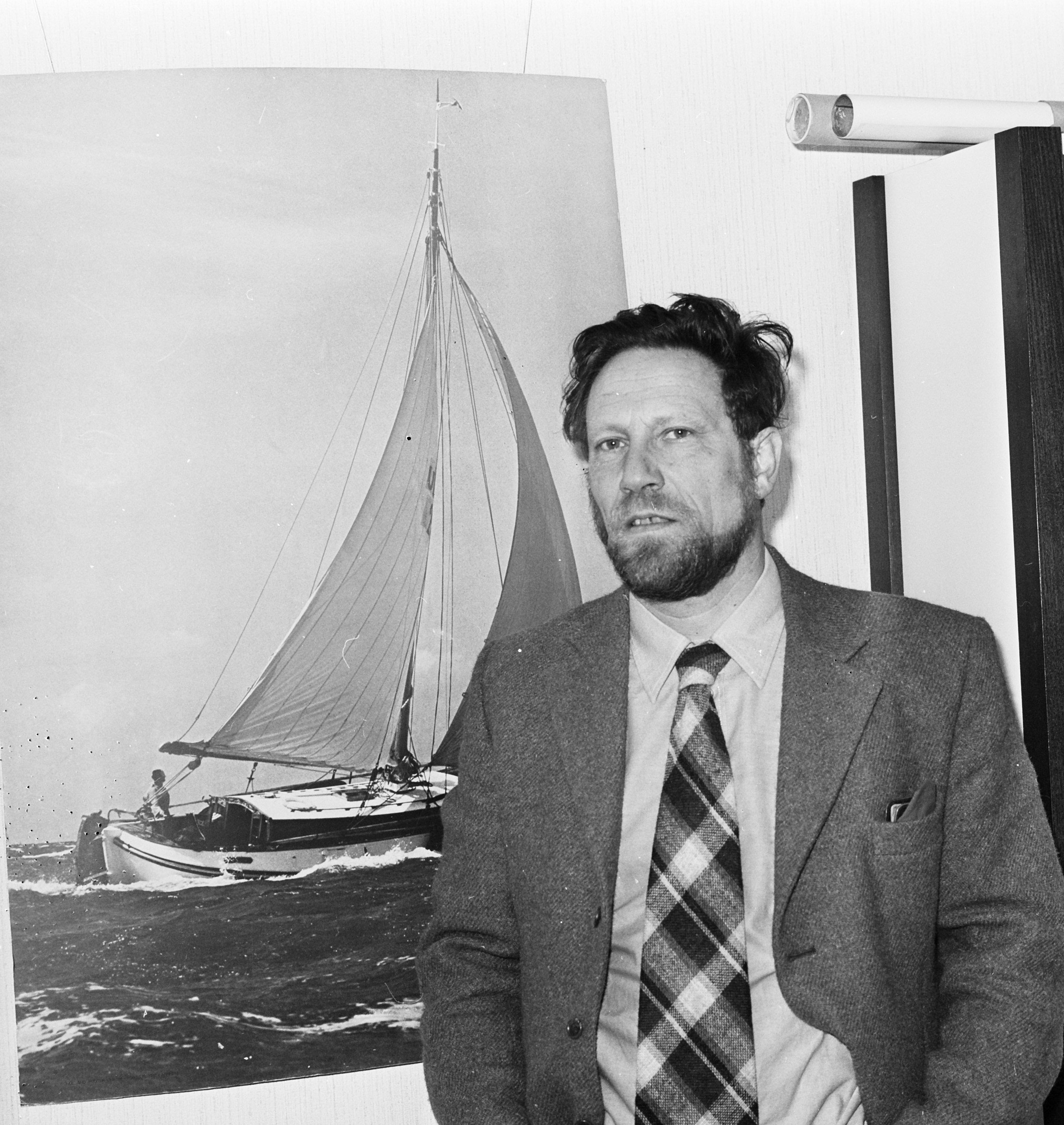 Prof. J.J. van Rood, Dec, 1977, Robert Koch Prize